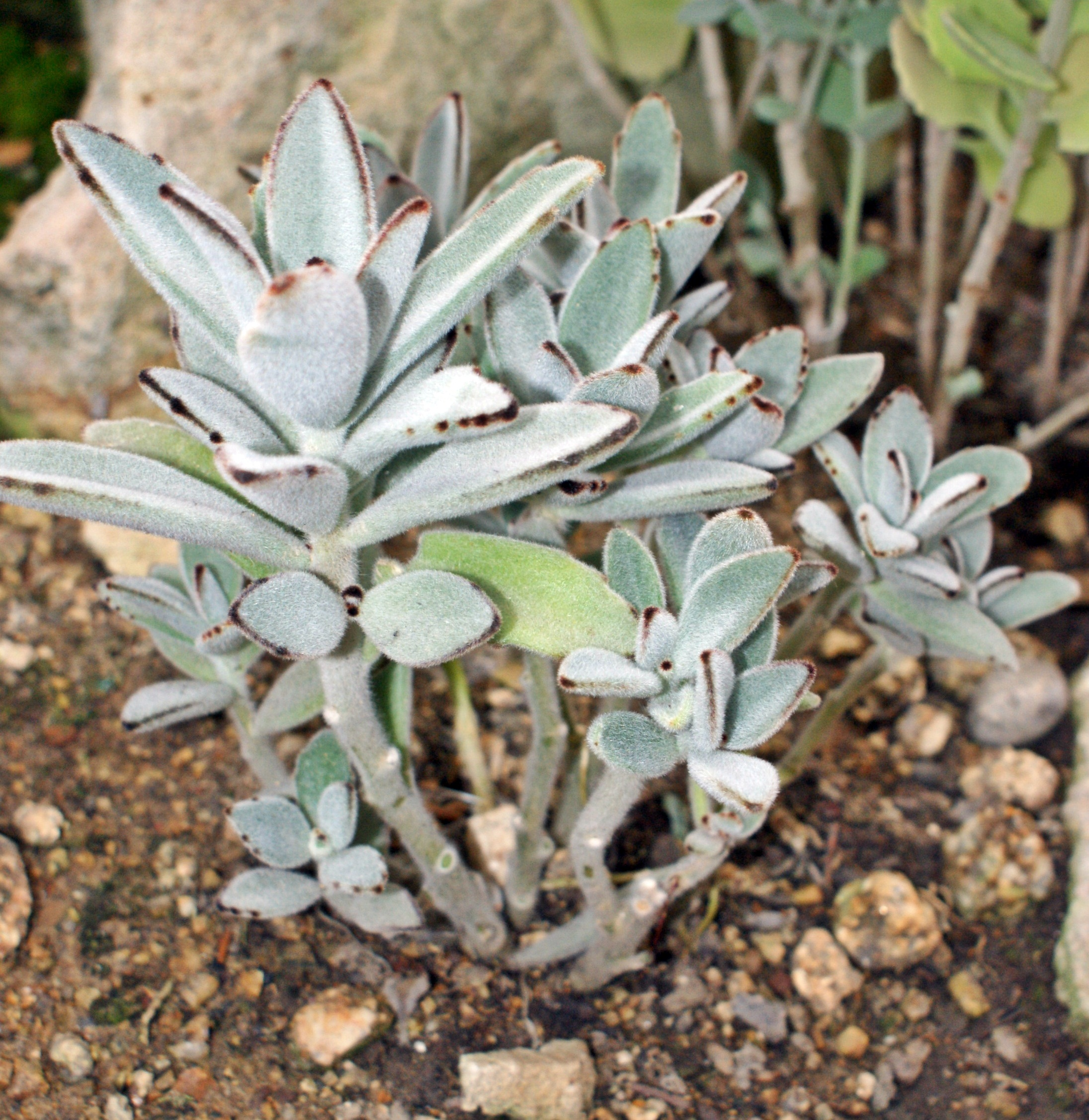 Kalanchoe tomentosa